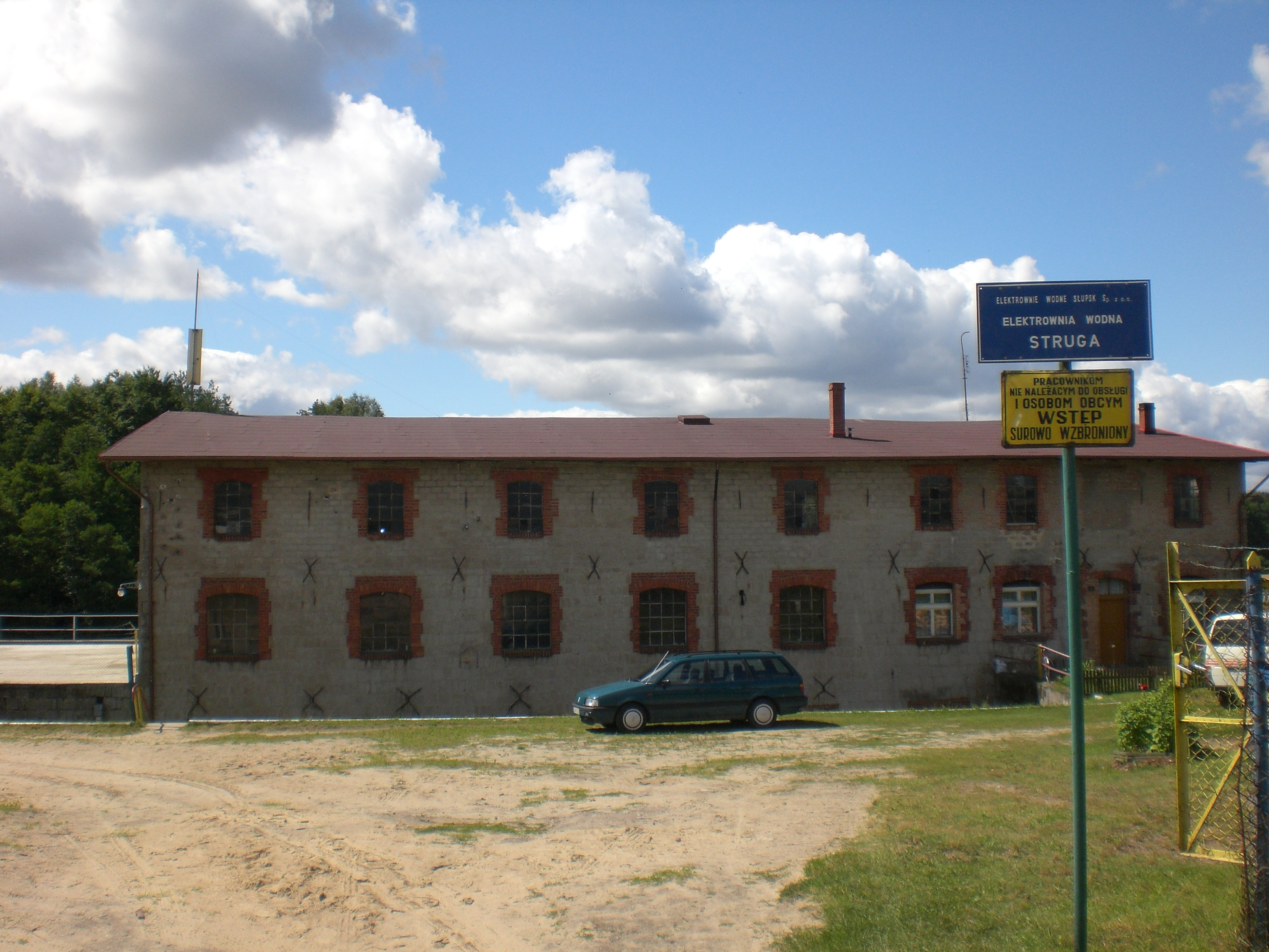 Hydroelectric powerplant on the Słupia river in Struga